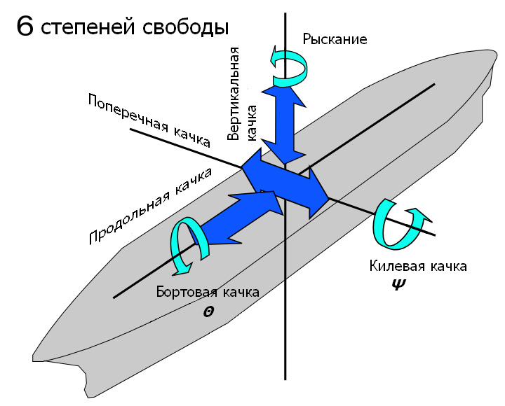 Ship's 6 Degrees of Freedom: Roll, Pithc, Yaw (russian captions)